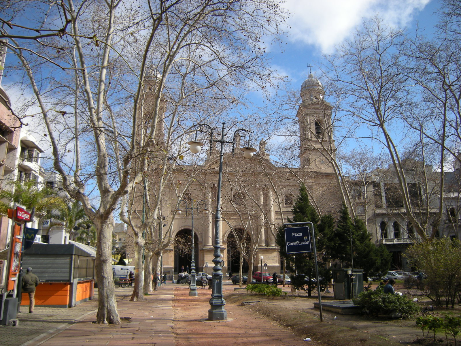 Plaza Constitución (literally, "Constitution Square") in Montevideo, Uruguay.